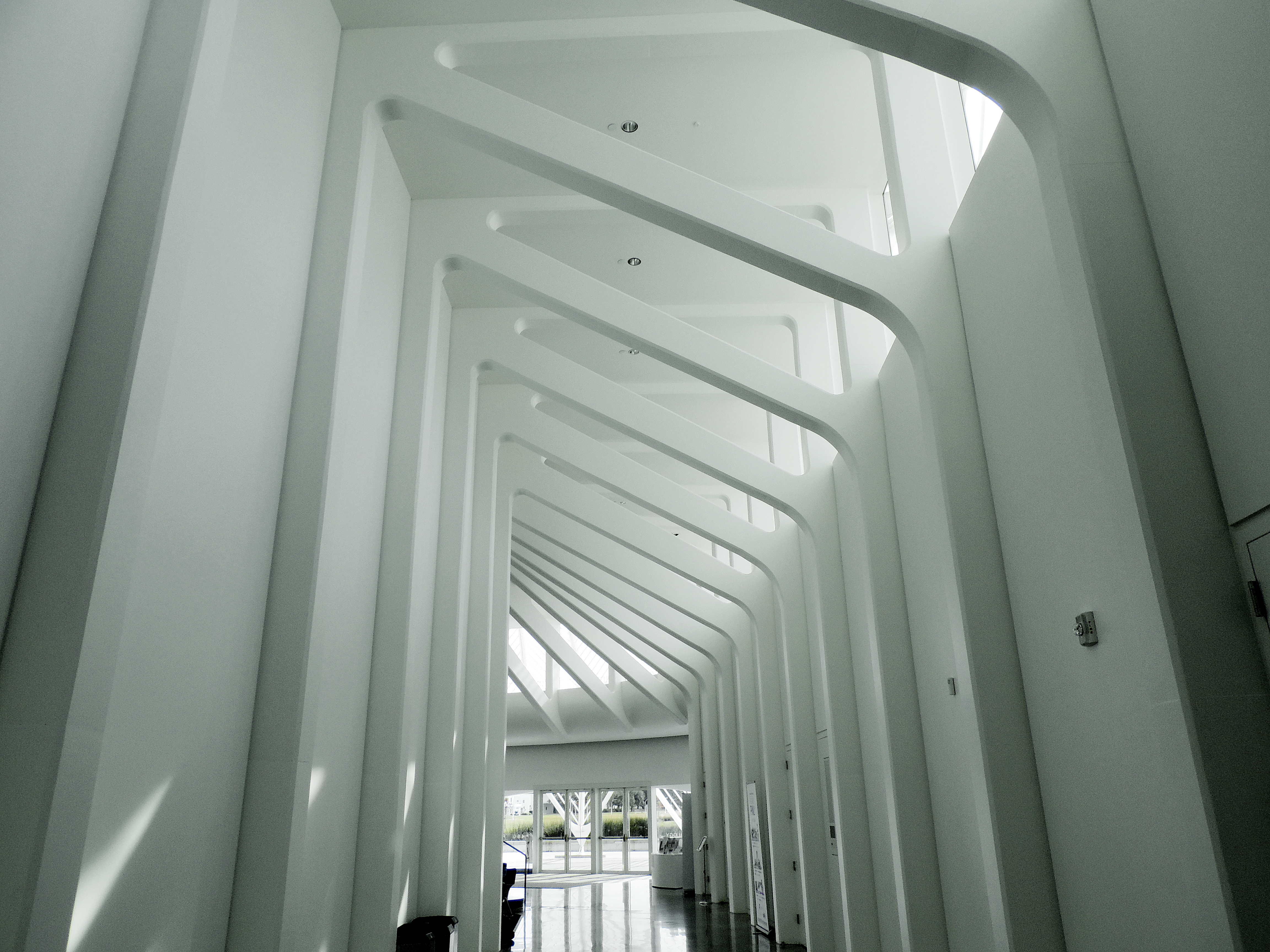 Inside the main building of Florida Polytechnic University.